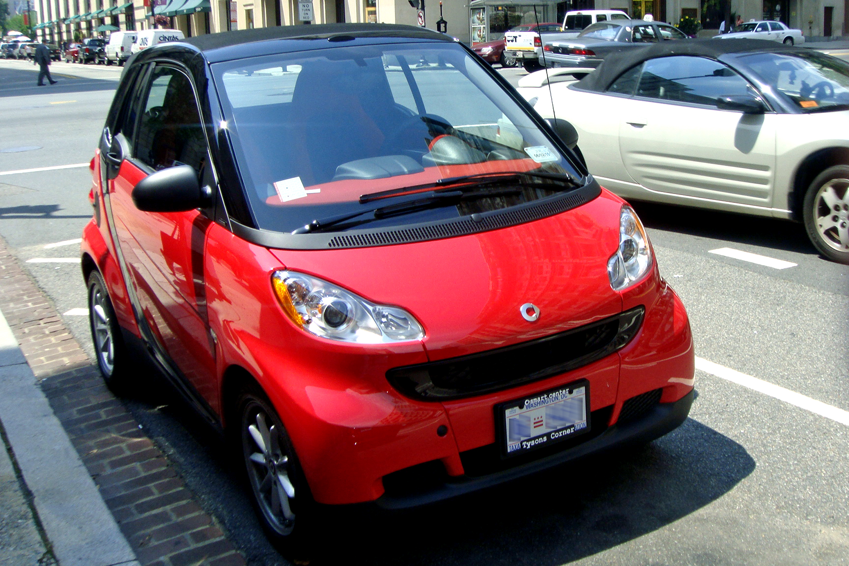 Smart Fortwo (2nd gen) parked in downtown Washington, D.C.. Front view.